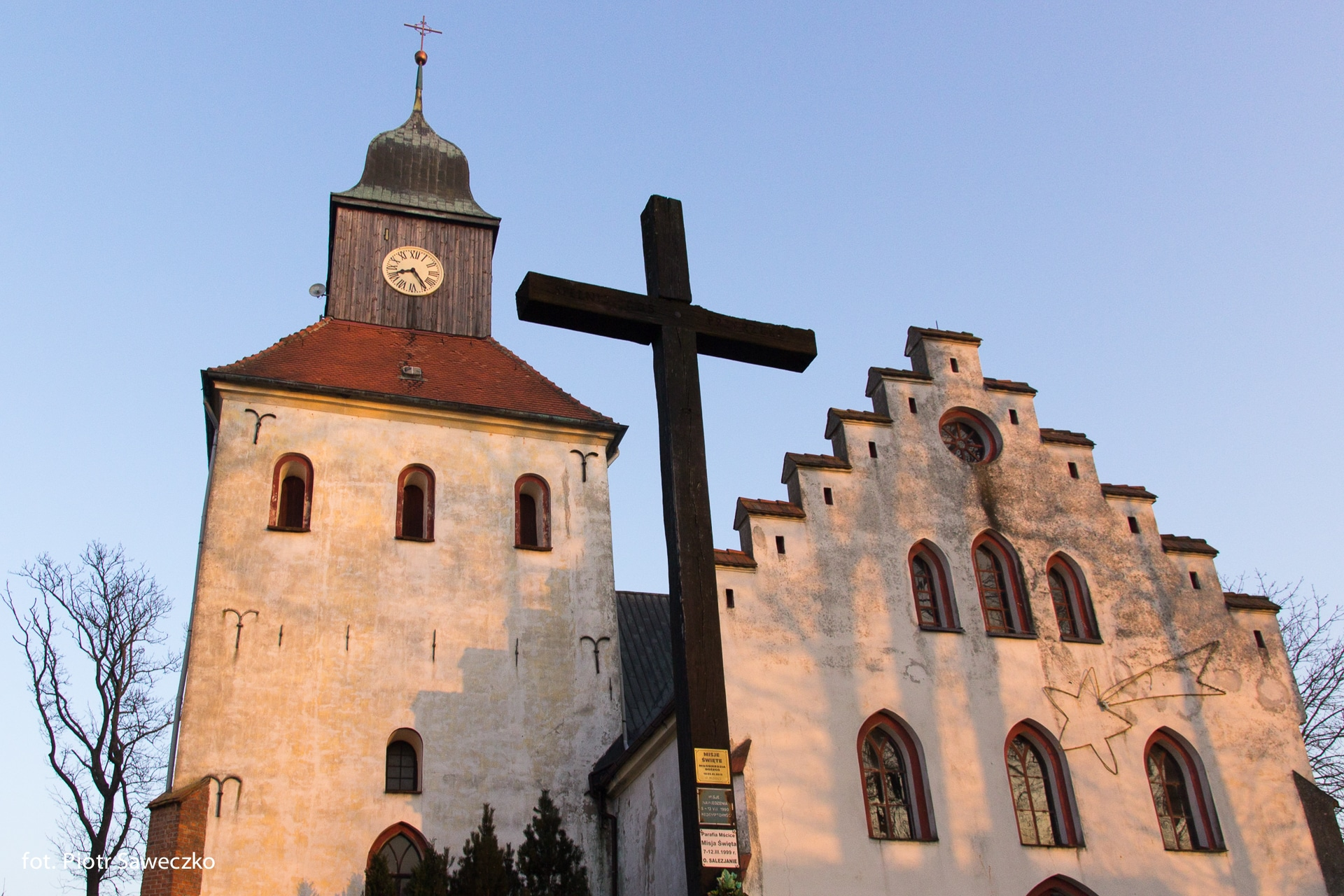 Koszalin (Jamno) - Our Lady of the Rosary church.